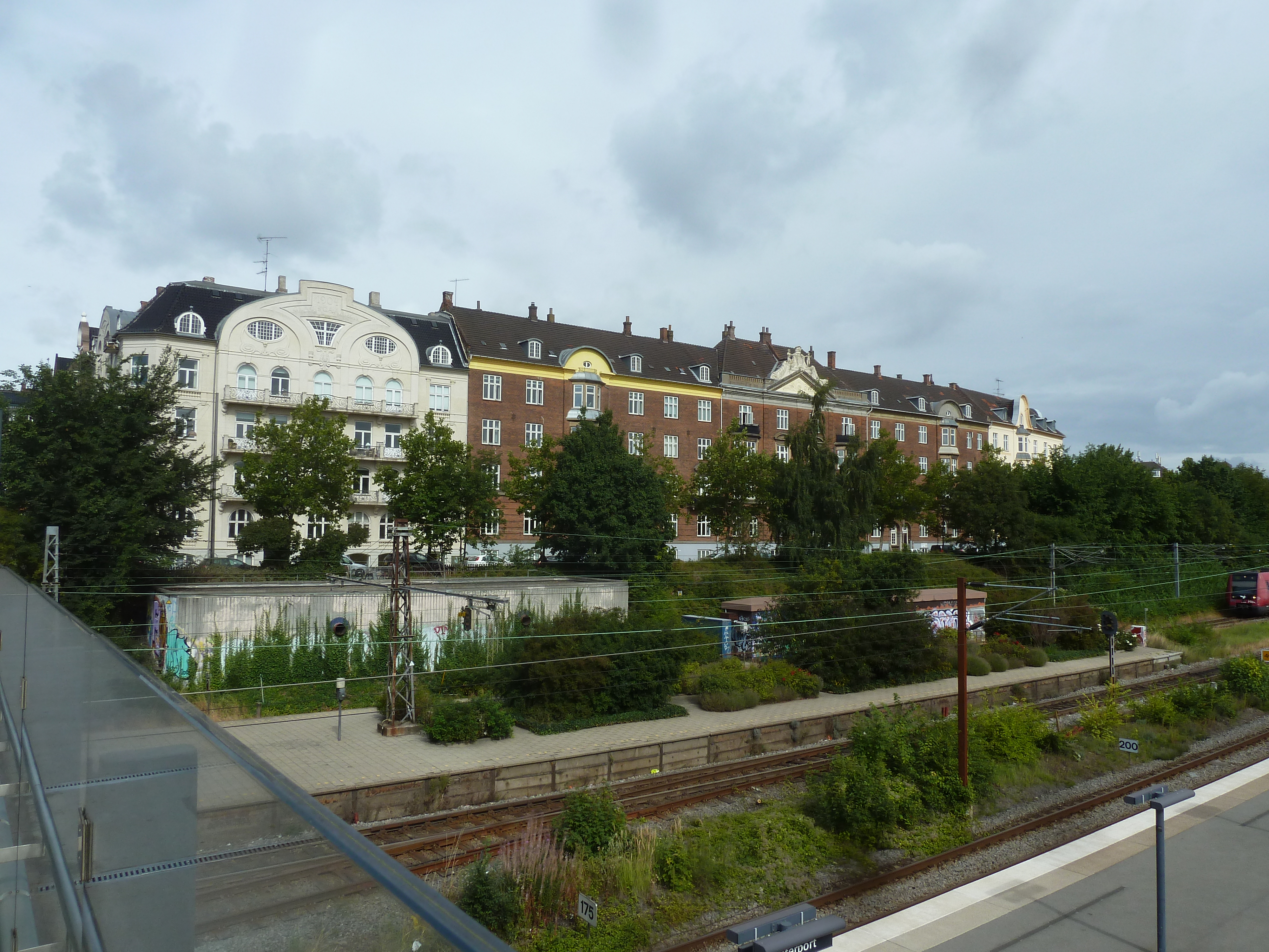 Østbanegade in Copenhagen, Denmark - with Glacisgaarden (1904) in Art nouveau (Jugendstil)